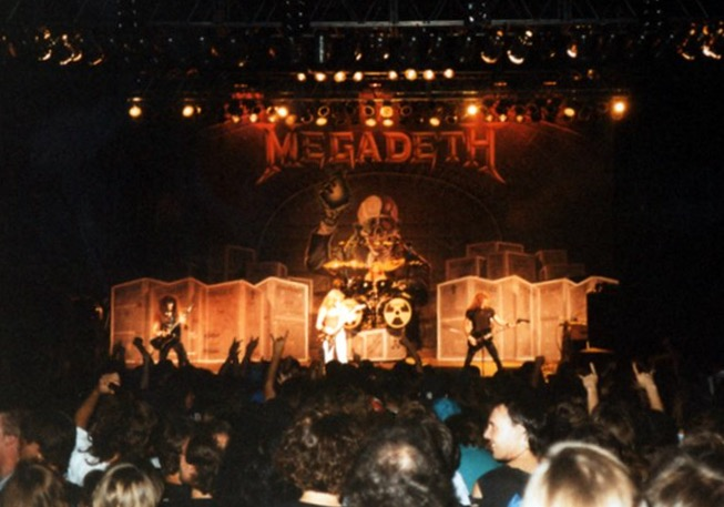 Megadeth at the Sloss Furnace in Birmingham, Alabama in 1991 on tour with local Midwest band Anacrusis.